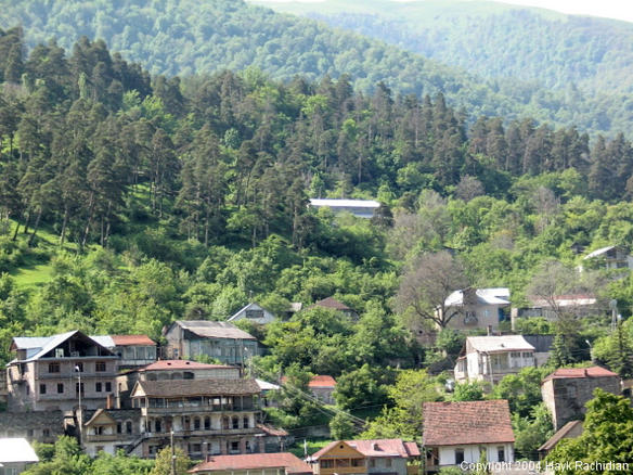 Dilijan Town Center This work is licensed under a Creative Commons License.